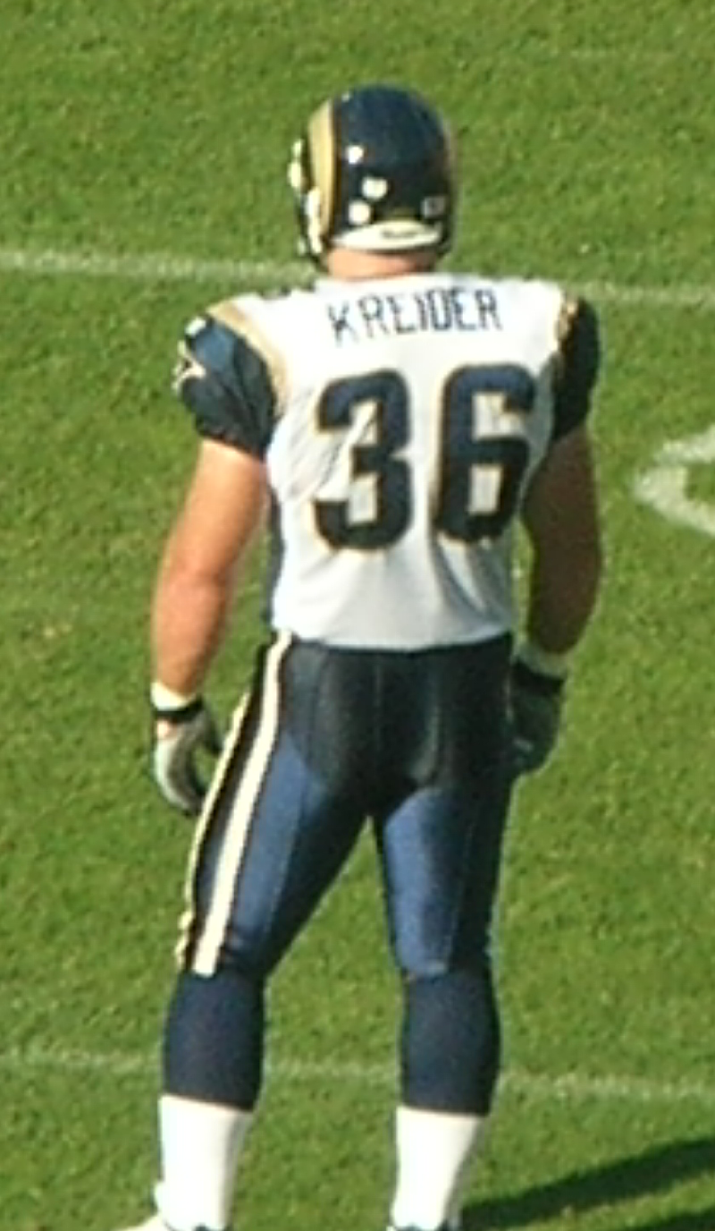 St. Louis Rams running back Dan Kreider during a road game against the San Francisco 49ers. The 49ers won 35-16.